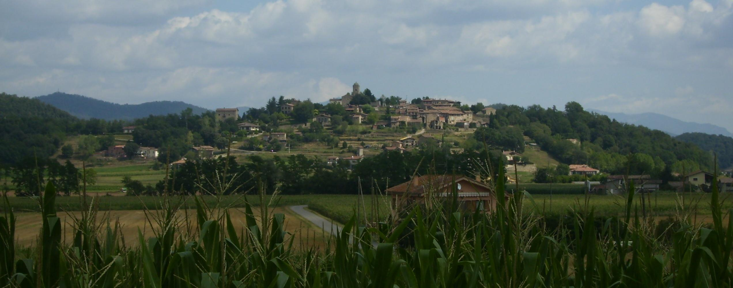 El Mallol (Catalonia)